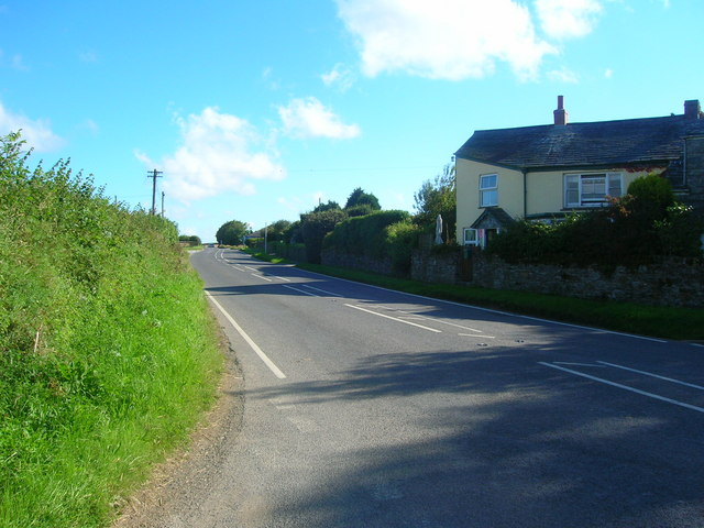 B3266 at Longstone Looking towards Hendra (just over the brow)